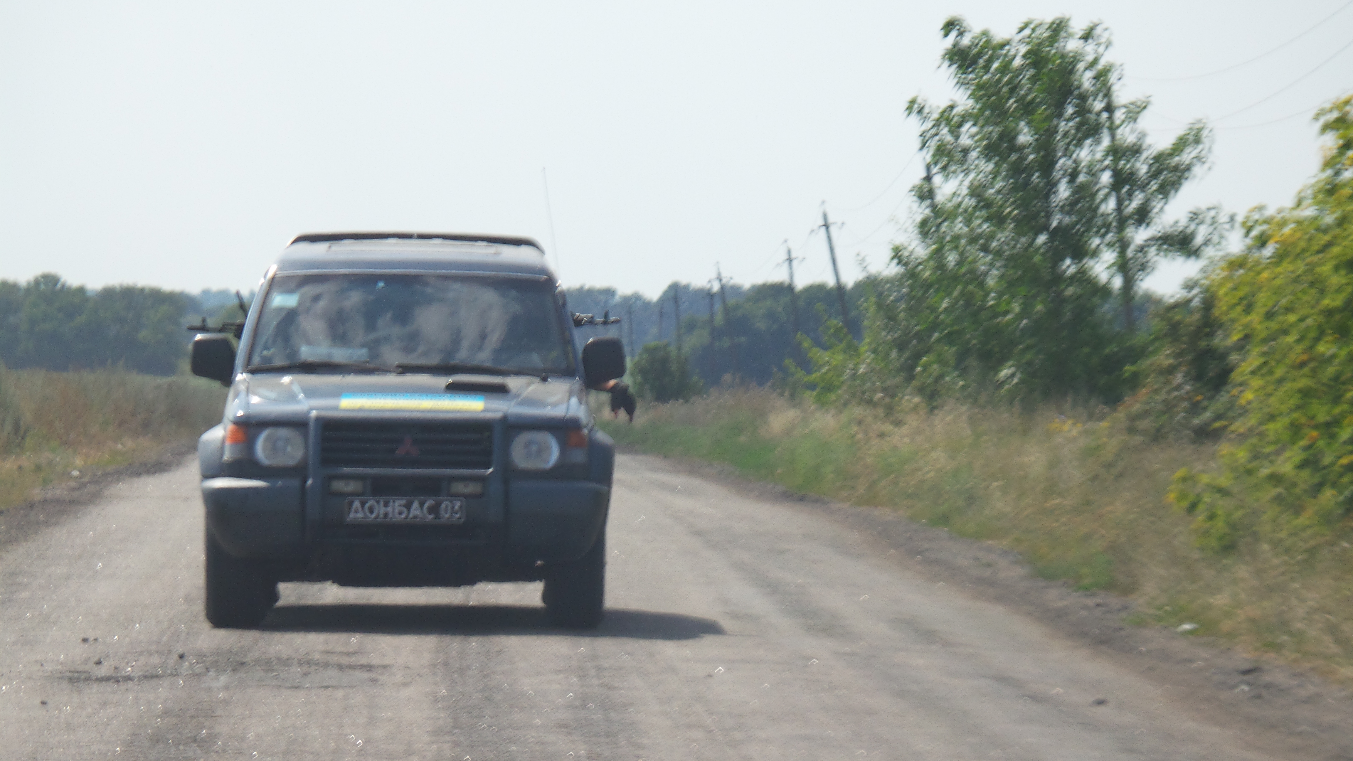 Battalion "Donbas" in Donetsk region, Ukraine